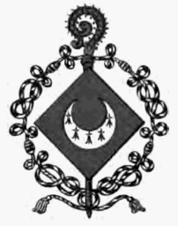 Arms of an abbess displayed on a lozenge with crosier turned left